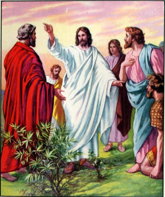 Disciples chosen and sent out